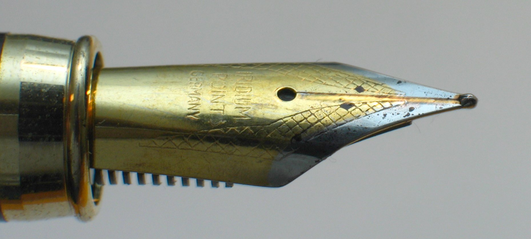 Iridium fountain pen nib, macro.